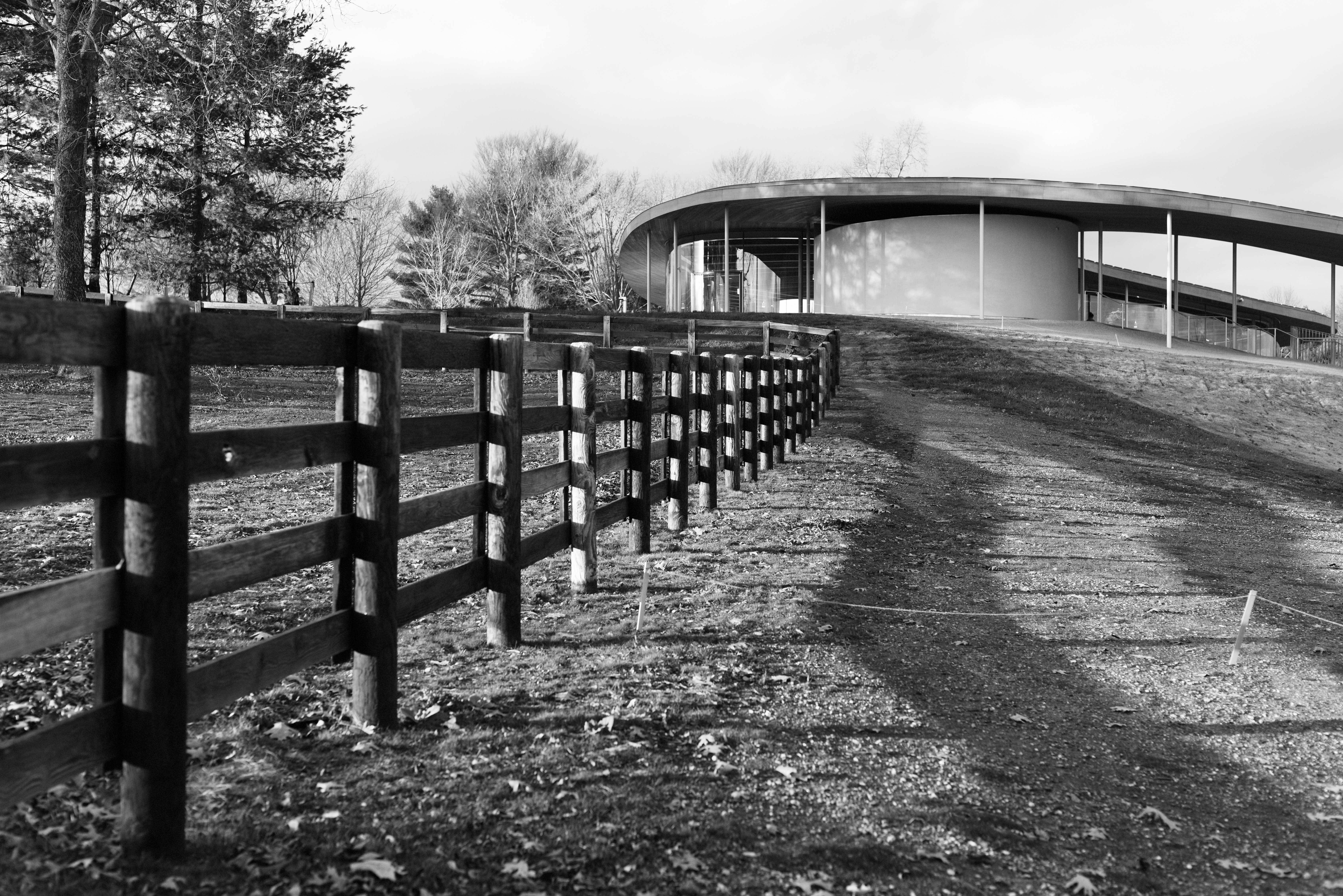 Grace farms is built on 80 acres of land. It used to belong to many small farms.